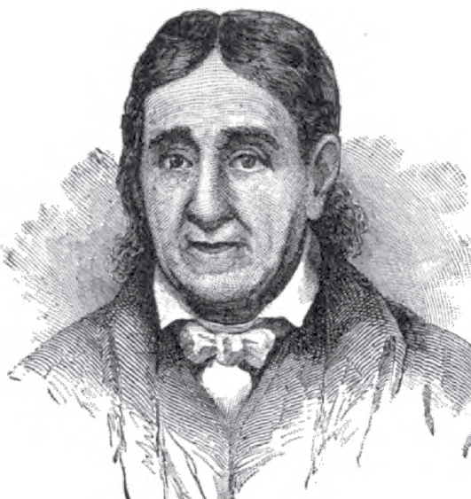 John Heckewelder drawn by Henry Howe